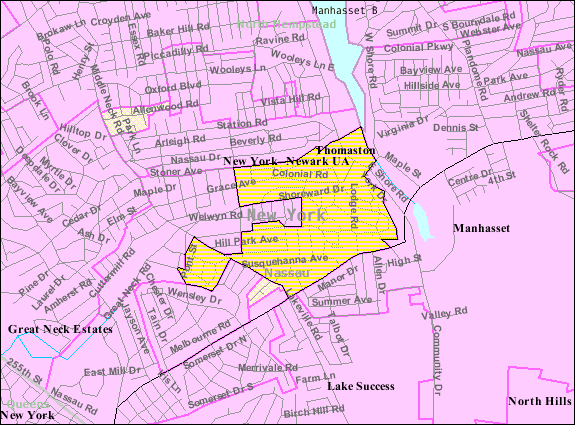 U.S. Census 2000 reference map for Thomaston, New York